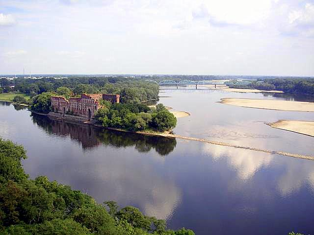 Confluence of Bugo-Narew (Bug and Narew) and Vistula at Modlin. Ruins of the 19th century fortress granary on the left.